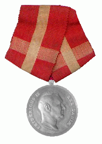 Zilveren Medaille van Verdienste Denemarken Fortjenstmedaljen i Sølv Danmark